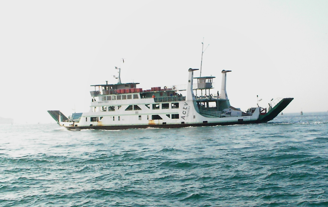 Mototraghetto Marco Polo (ferry) of public service (ACTV) in Venice